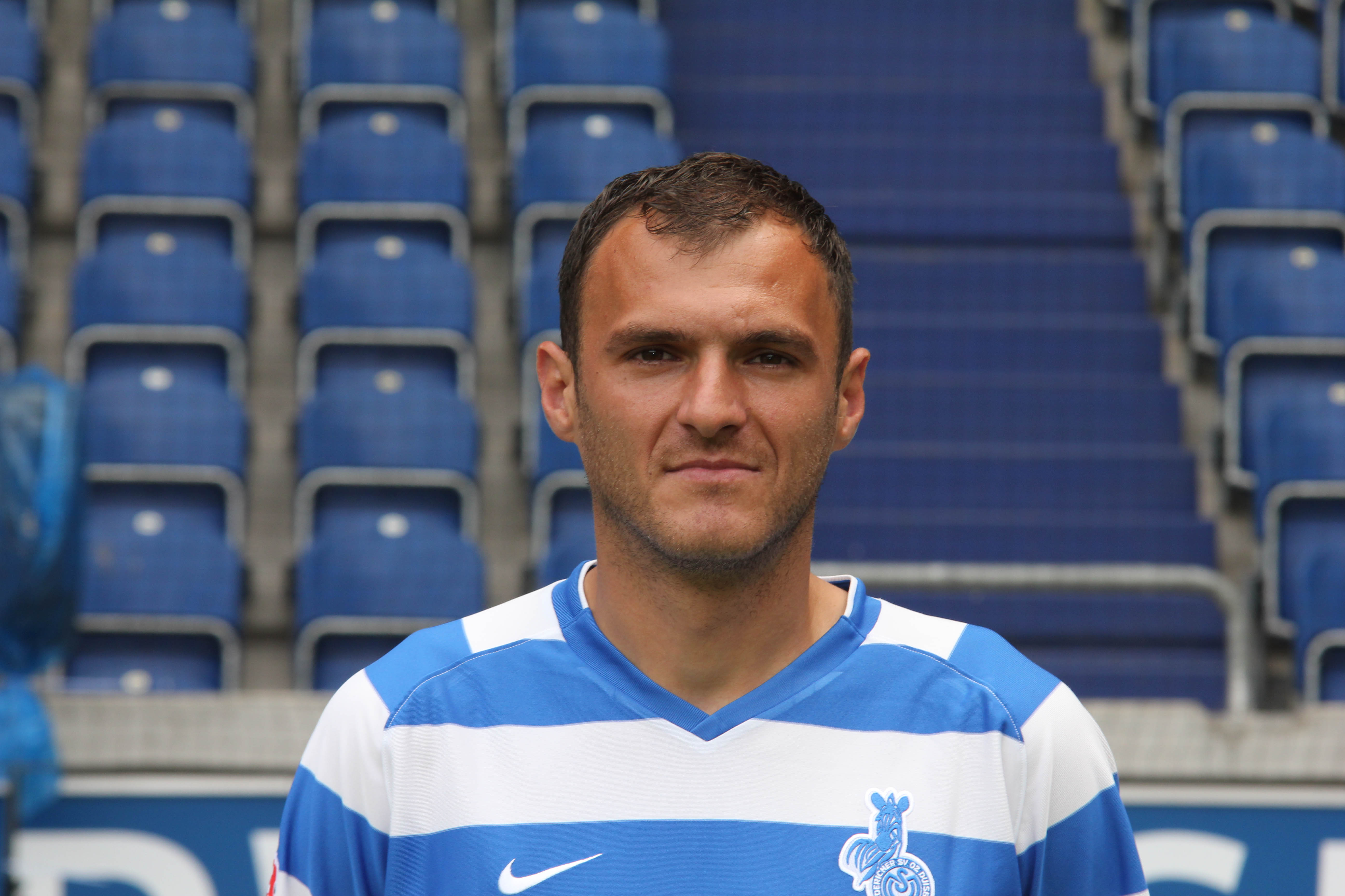 Romanian footballer Emil Jula, MSV Duisburg